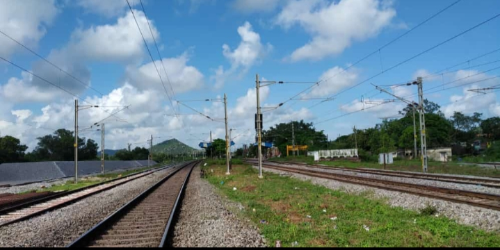 This is the Picture of Surla Road railway station